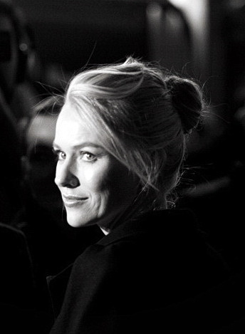 Actress Naomi Watts at the Opening Night Gala of the London Film Festival - Eastern Promises Premiere.